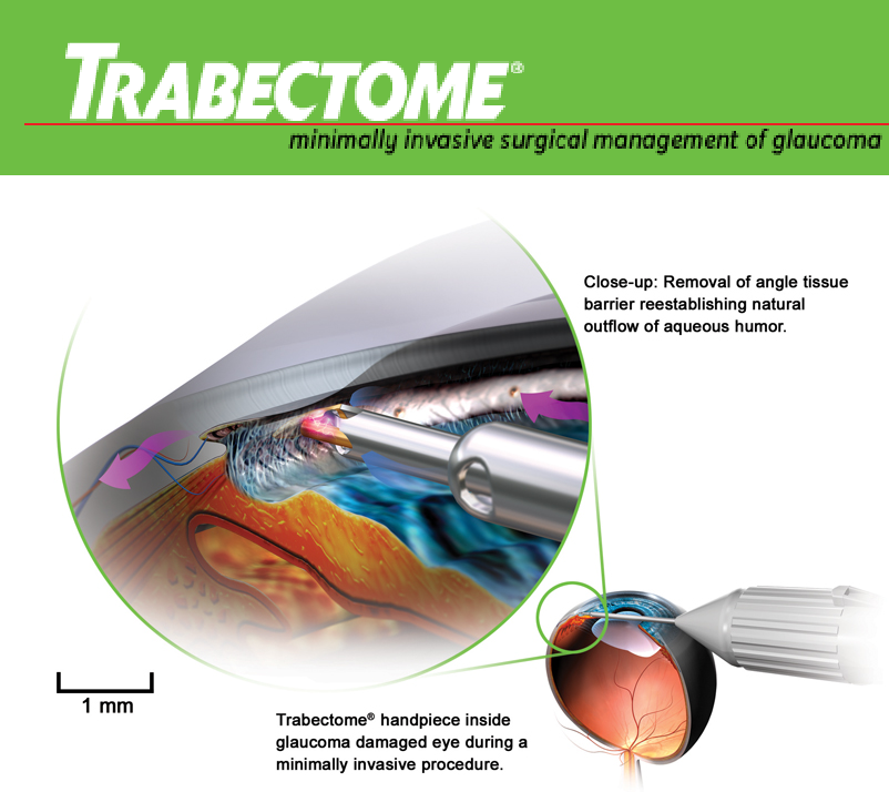 Trabectome - minimally invasive glaucoma surgery